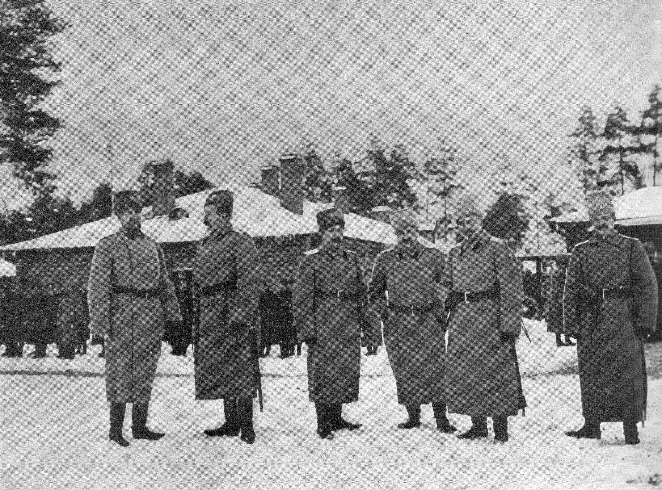 Russian GHQ, January 1915. Governor-general of Warsaw prince Yengalychev, generals Yanushkevich, Kondzerovskii, Ronzhin, Danilov and Sokhanskii.